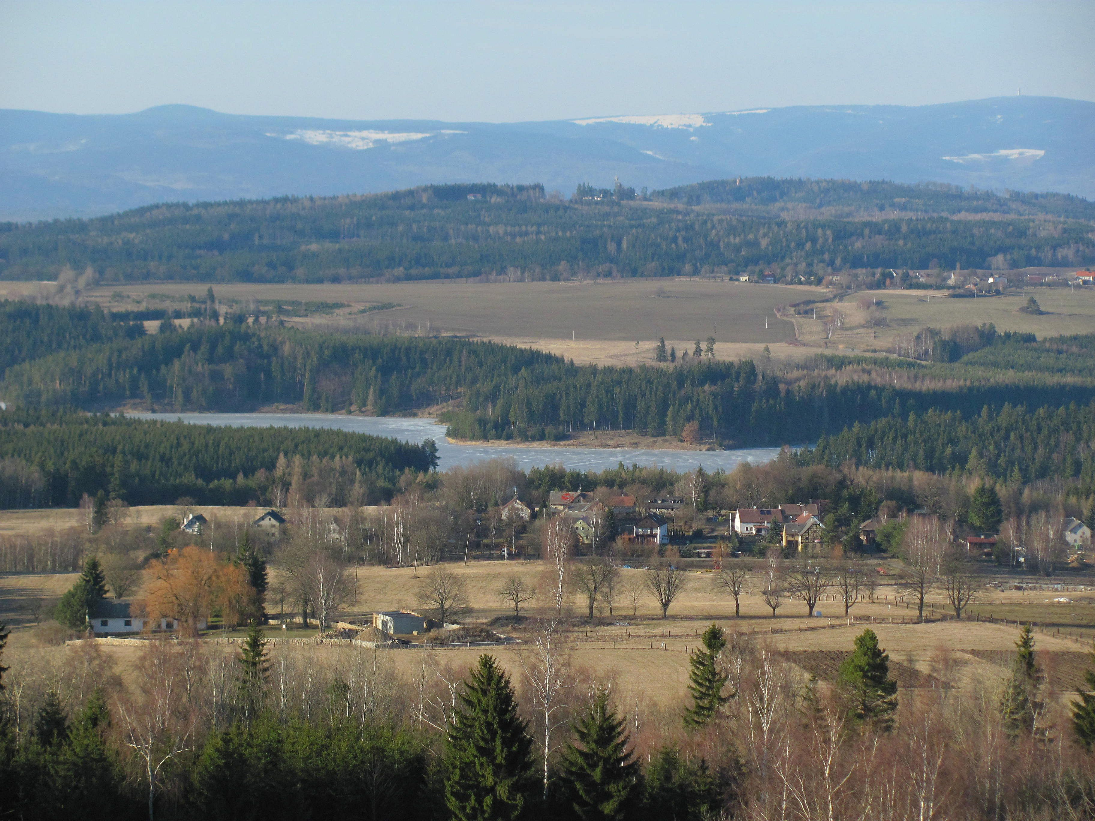 Nové Stanovice from Dražovský hill, Ore Mountains in the back